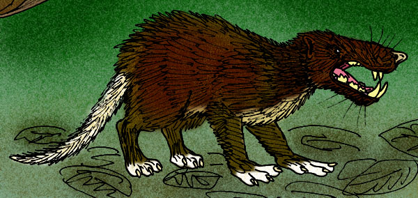 Reconstruction of the housecat-sized gymnure Deinogalerix koenigswaldi, of Late Miocene Gargano.[1] (C) Stanton F. Fink